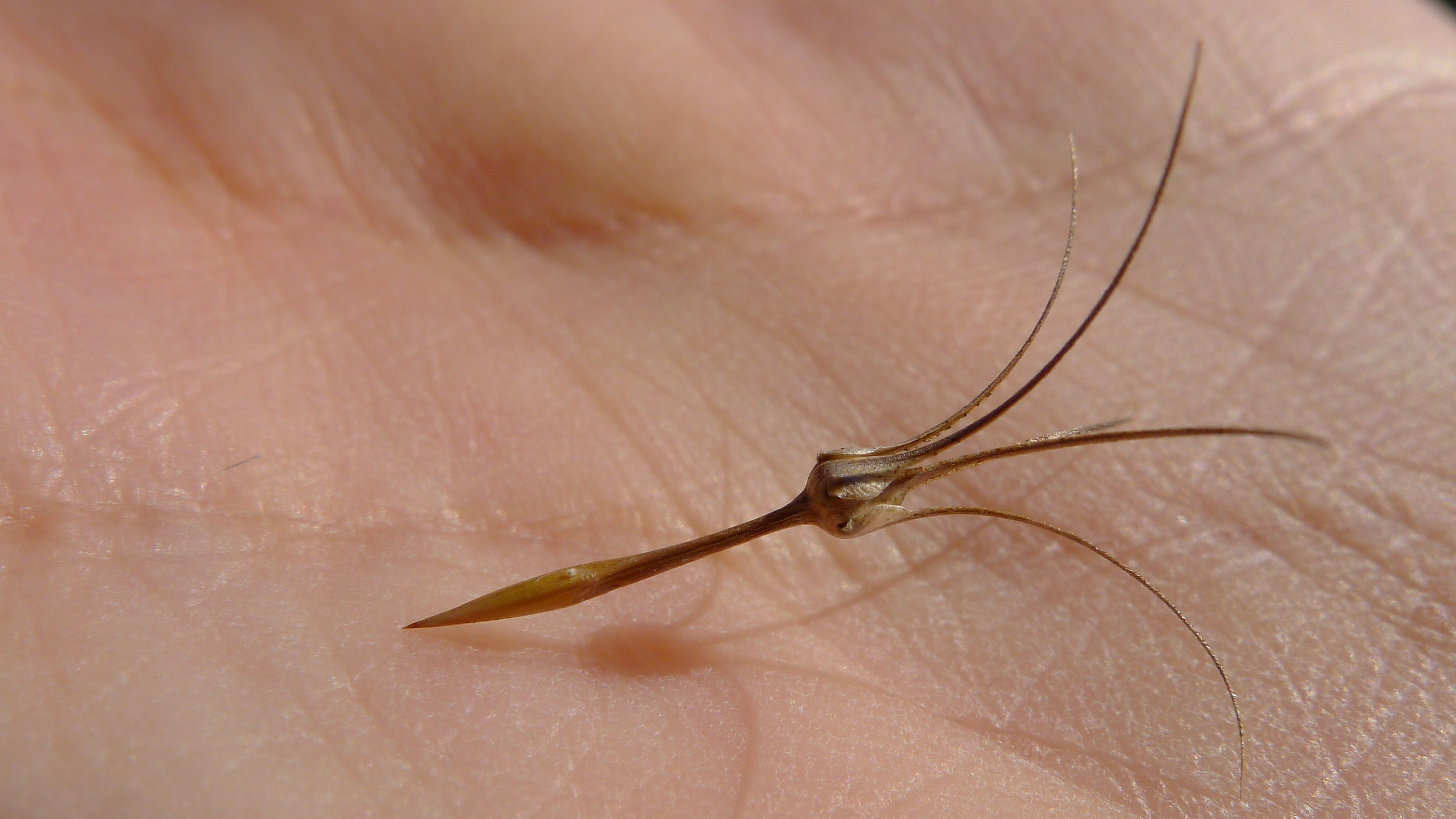 Seed of Summer Starflower, possibly Calytrix flavescens. Talbot Road Reserve, Swan View, Western Australia, May 2012.